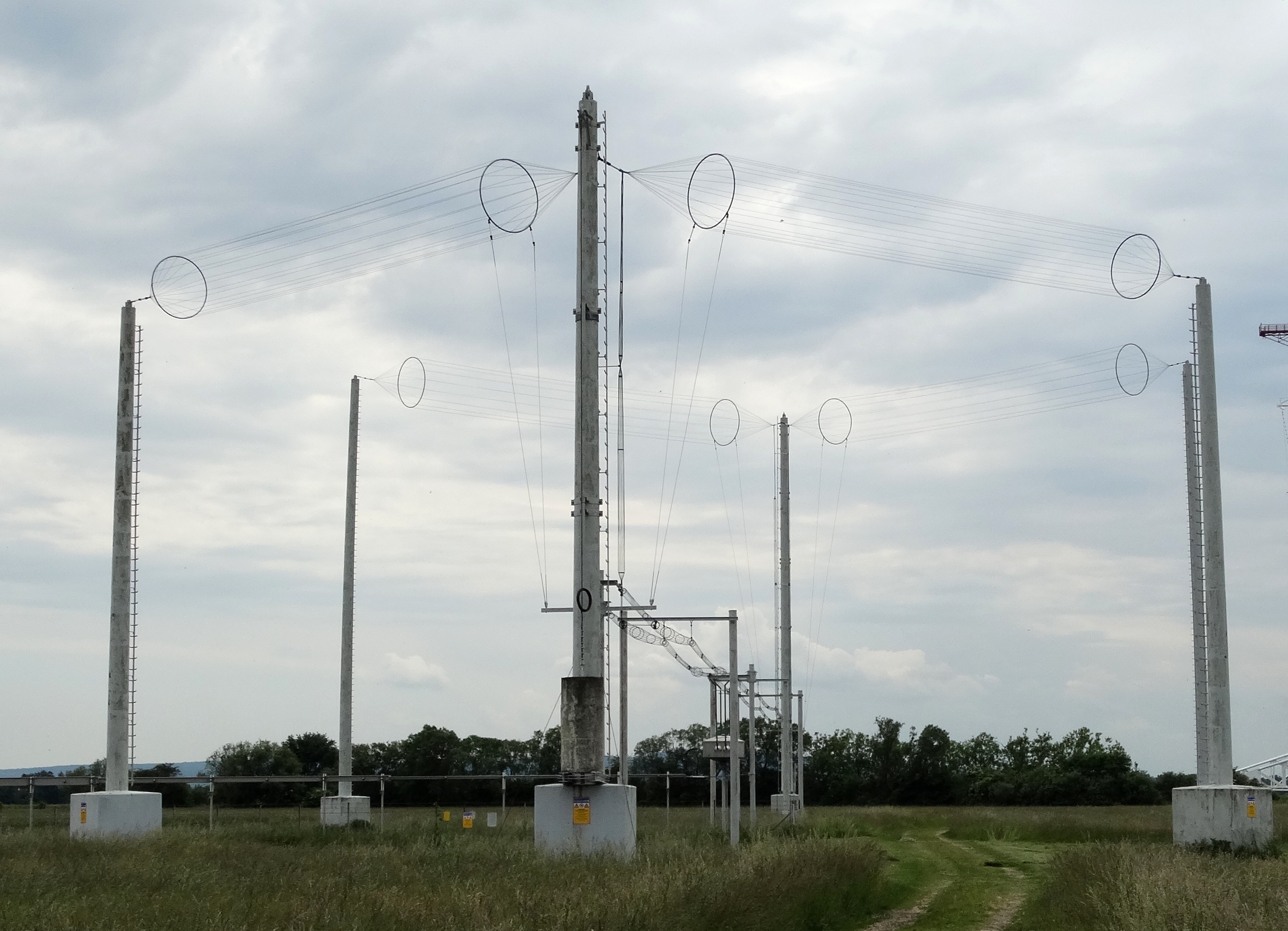 Two quadrant (Vee) antennas at the Moosbrunn shortwave transmitting station of the Austrian Broadcasting Service (Österreichischen Rundfunksender GmbH, ORS), Moosbrunn, Austria. They consist of two switchable cage V shaped antennas separated by a distance of 92.3 meters. Quadrant antennas are broadband directional antennas used for long distance international shortwave communication. The foreground antenna, 14.3 m above ground is for 7 and 9 MHz. It is viewed from the feed end, and the parallel feedline can be seen on the near mast. The antenna in the background, 22 m high, is for 5-6 MHz. In the middle, between the two antennas, the switchgear for switching the feed between the two antennas can be seen. The feedline from the transmitter enters from left. The antennas broadcast at 100 kW.